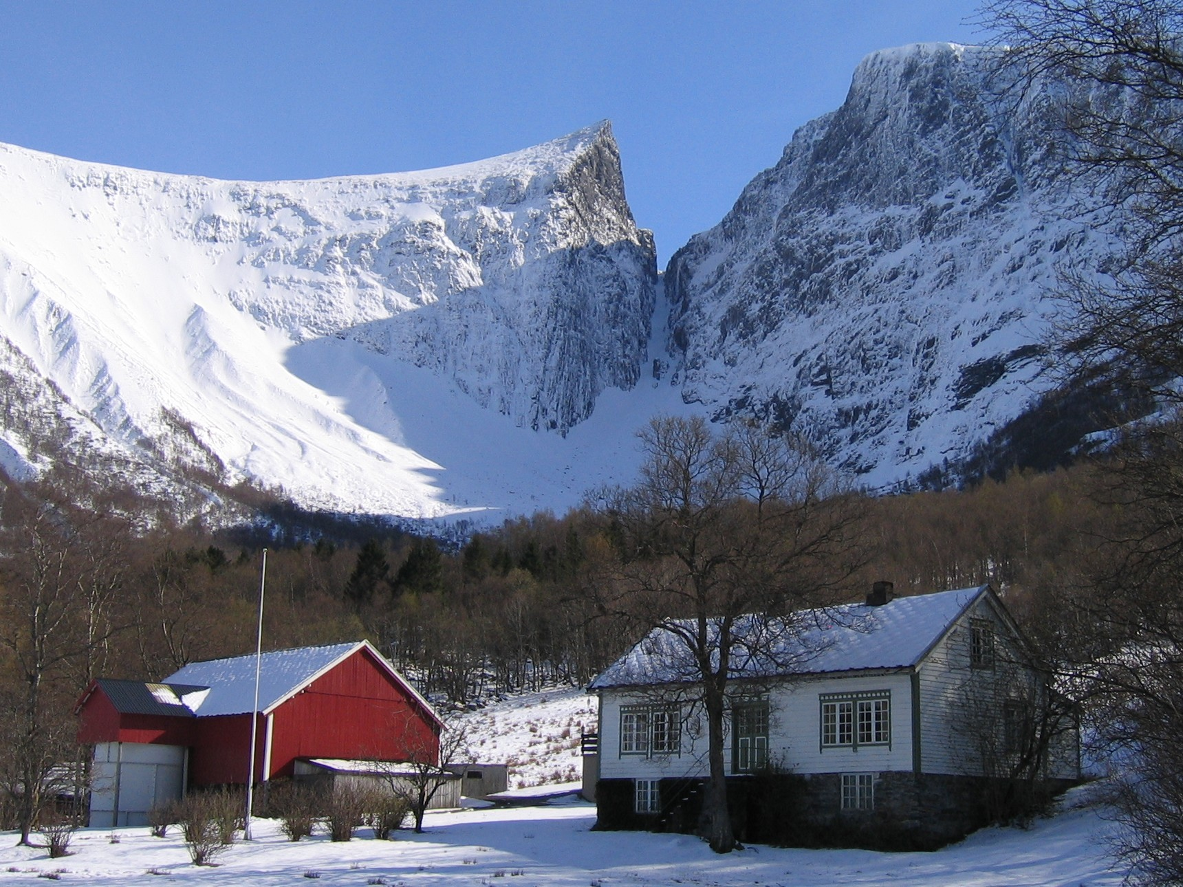 Masdalskloven. Mountain in Norway